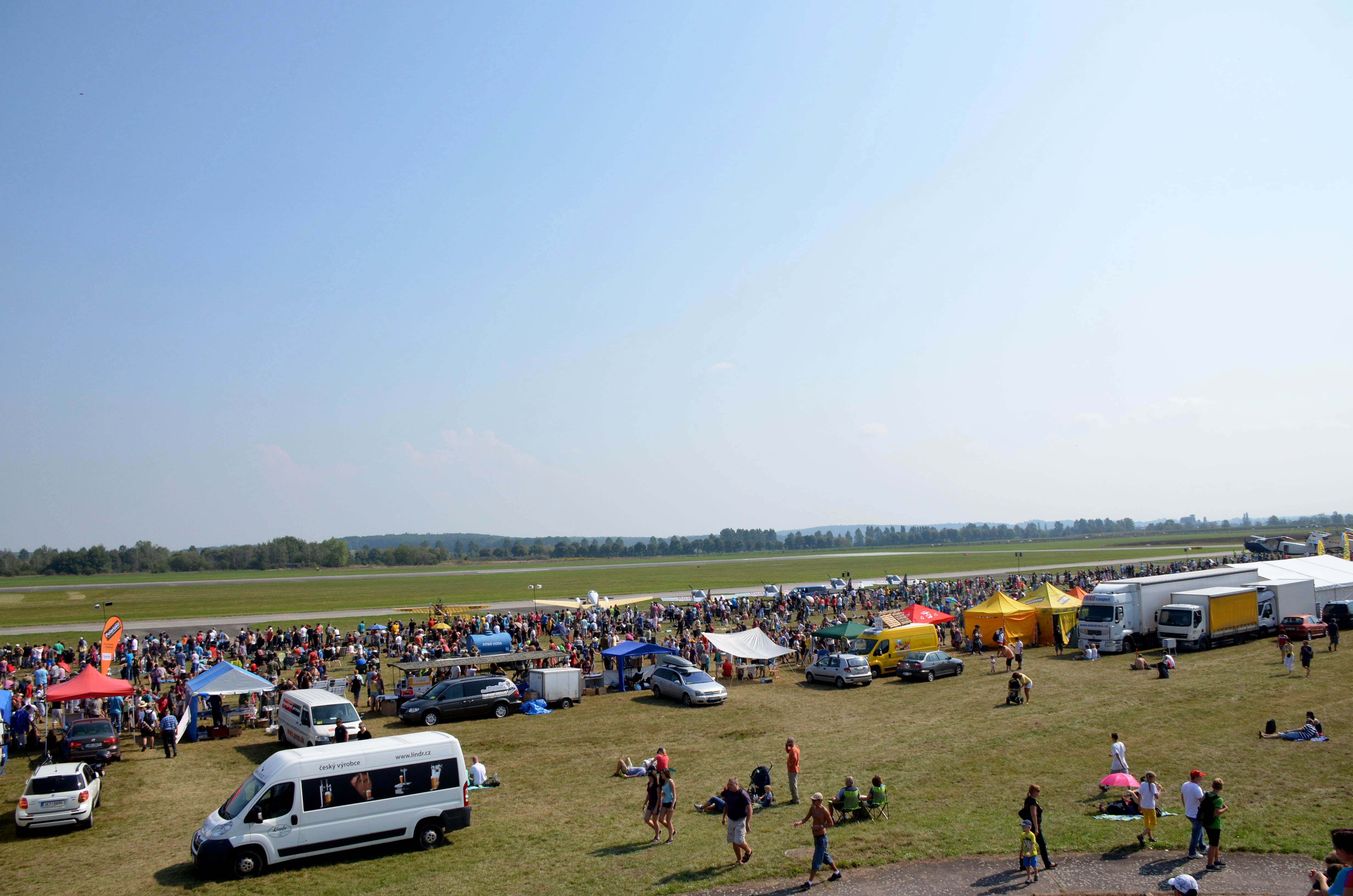 atmosphere at Czech International Air Fest in Hradec Králové, Czech Republic.